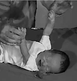 Grasp reflex in a young infant.